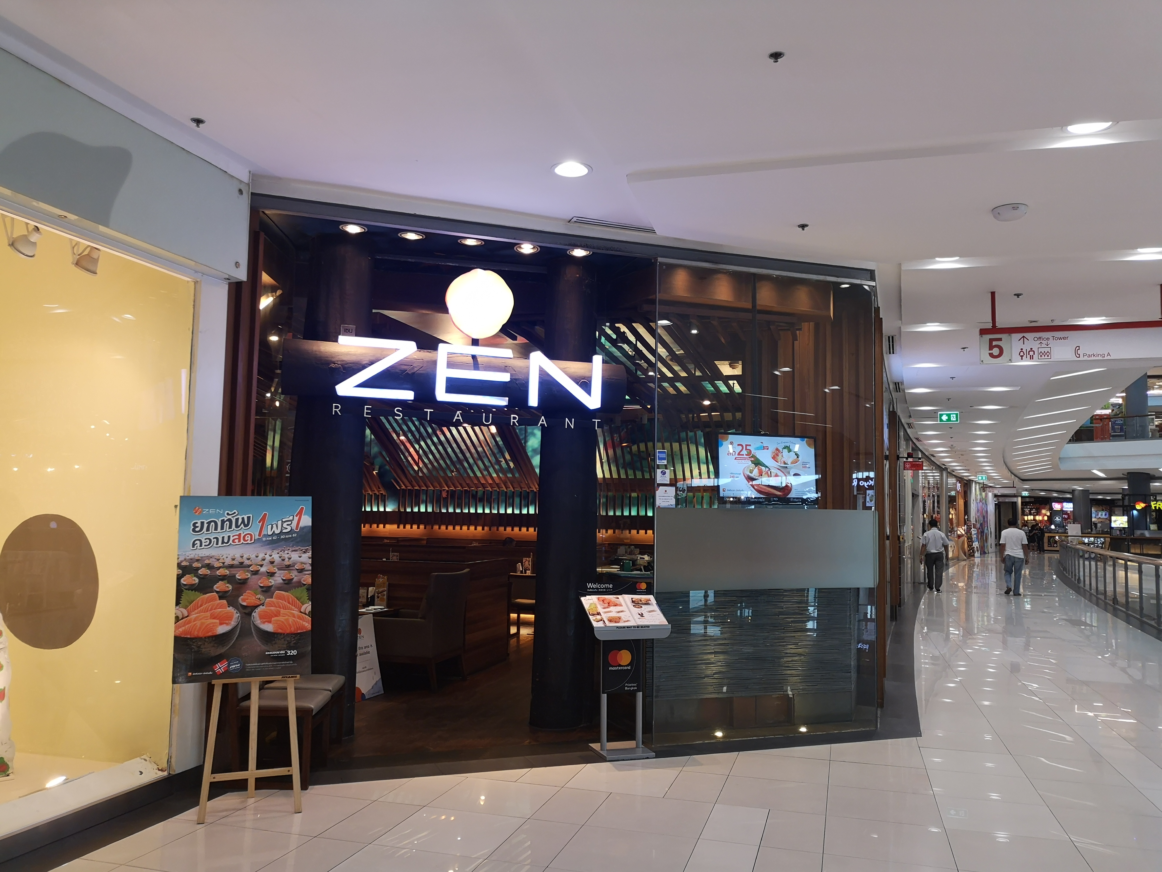 ZEN at Central Chaeng Watthana